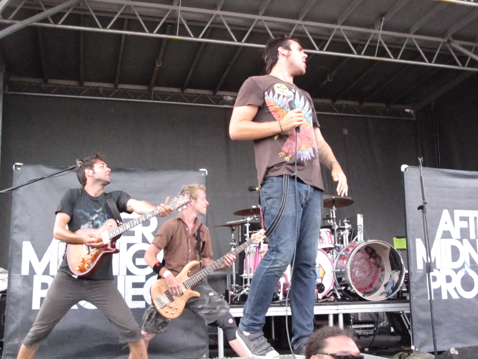 After Midnight Project (AMP) on the KIA Stage at Warped Tour 2009 in Virginia Beach.